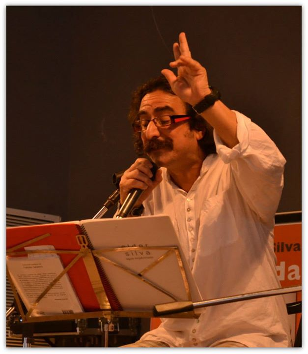 Presentación del libro "Agua enjabonada" del poeta uruguayo Elder Silva, ocurrido en el Mercado Agrícola de Montevideo en noviembre de 2013.